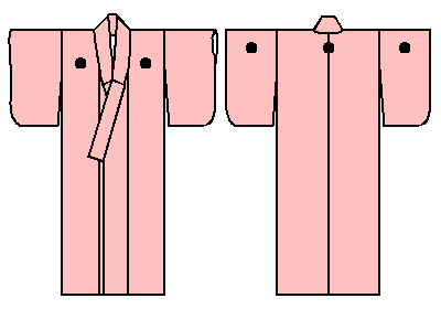 Stylized Kimono with five Kamons, also known as Itsutsumon. Kimono with five Kamons is the most formal. There are no Kimono with more than five Kamons.